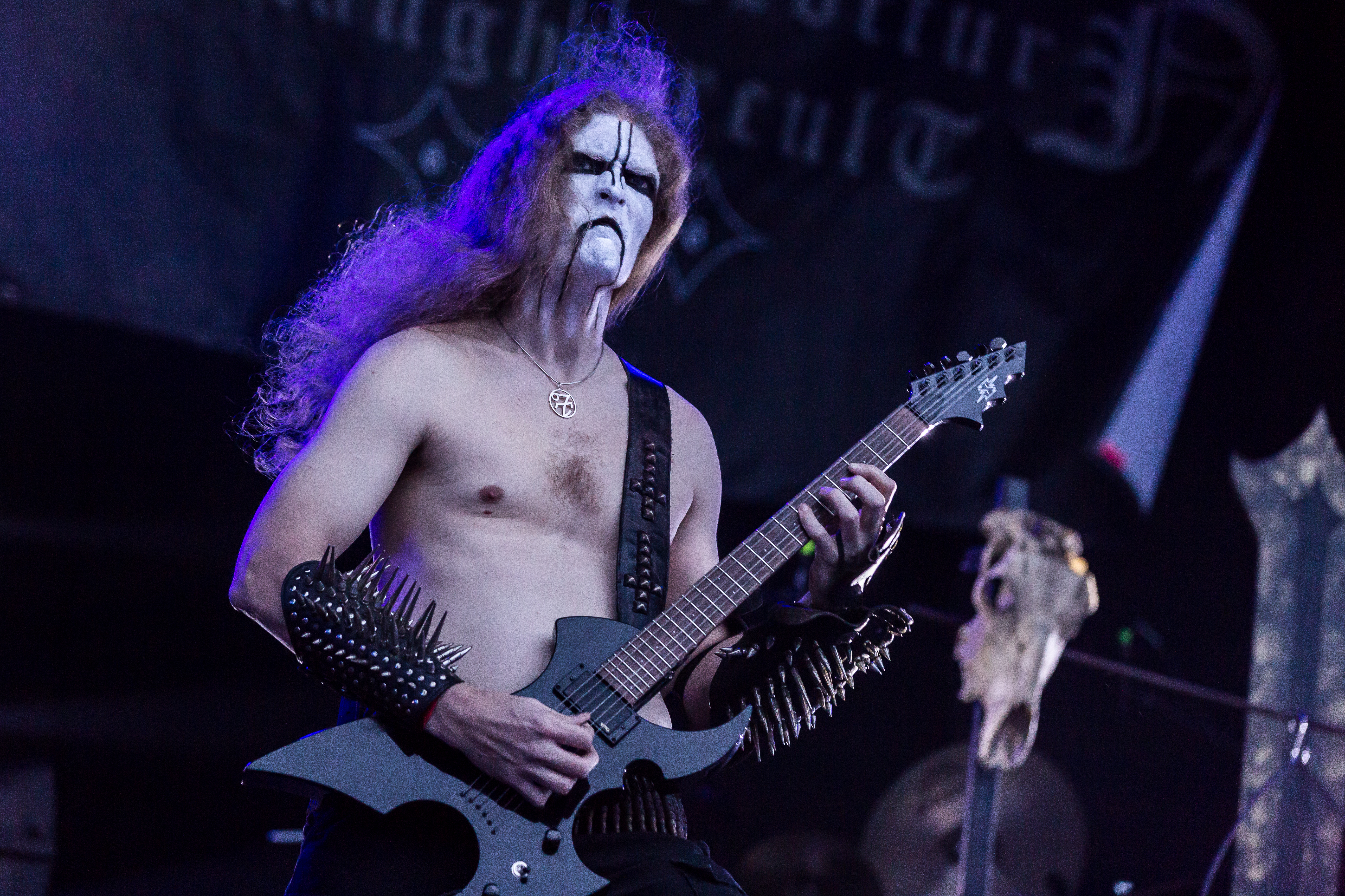 The German black metal band Darkened Nocturn Slaughtercult at the Party.San Metal Open Air 2016 in Obermehler-Schlotheim/Germany.